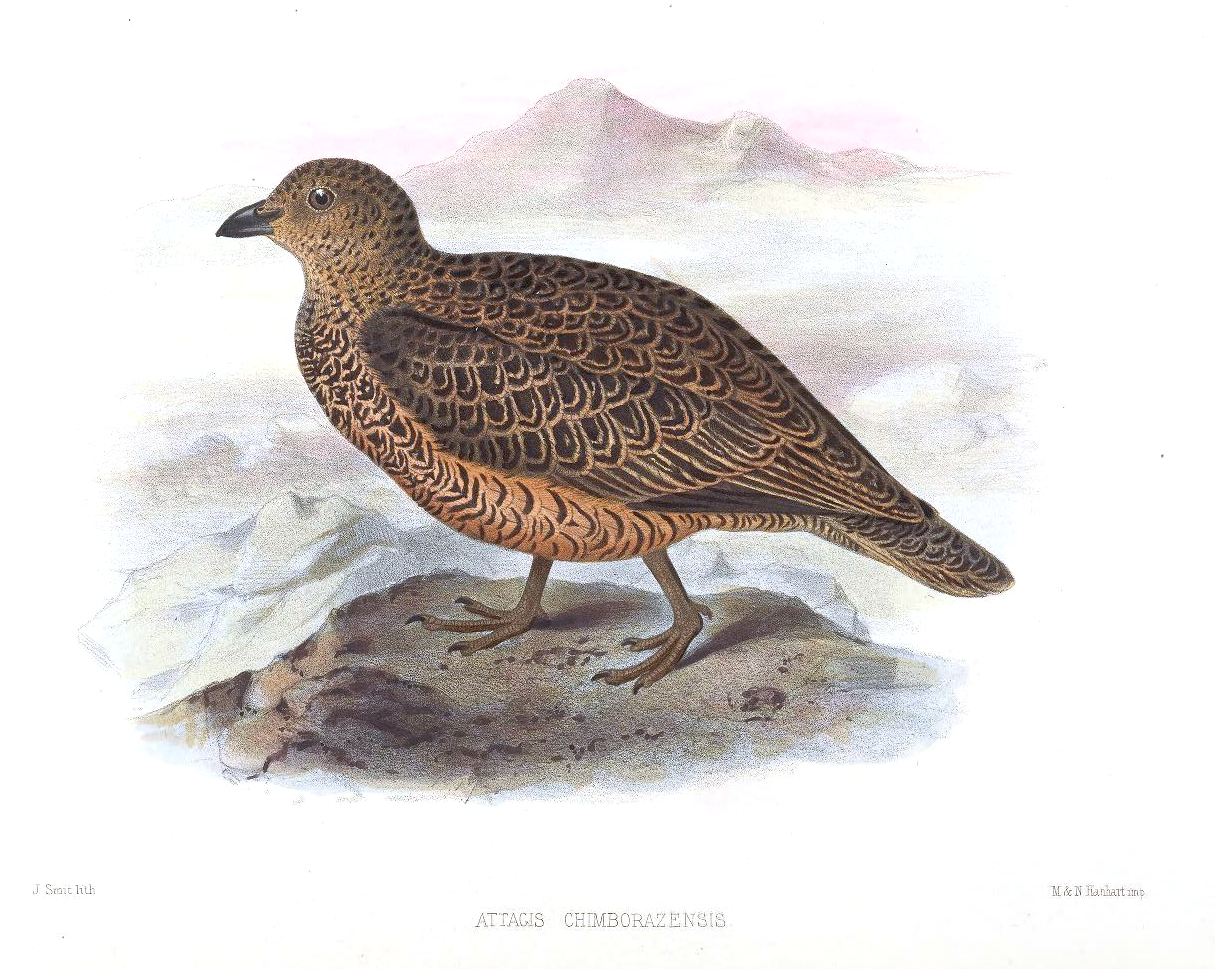 Attagis chimborazensis = Attagis gayi